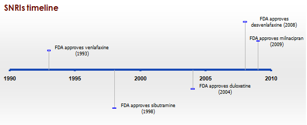 New picture of SNRIs timeline.